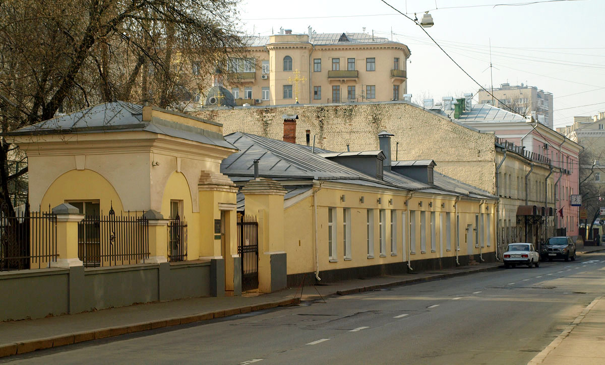 Bolshaya Bronnaya Street, Moscow. Former Yakovlev Estate, late 18th - early 19th century